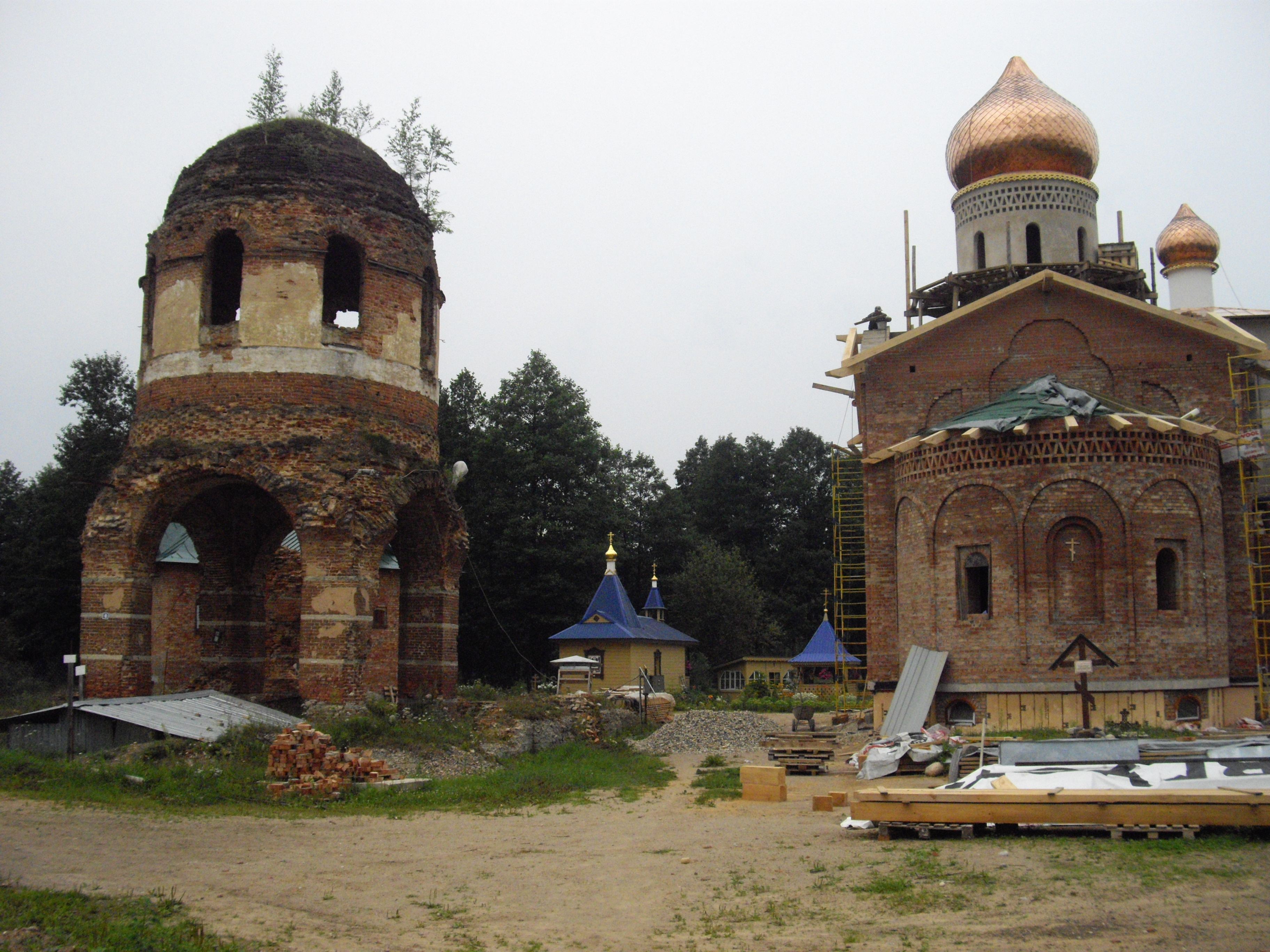 Remains of the historical church of the XIX century and the new church under construction in Feofilova Pustyn' (Theophil's Monastery) in the Pskov region in Russia.